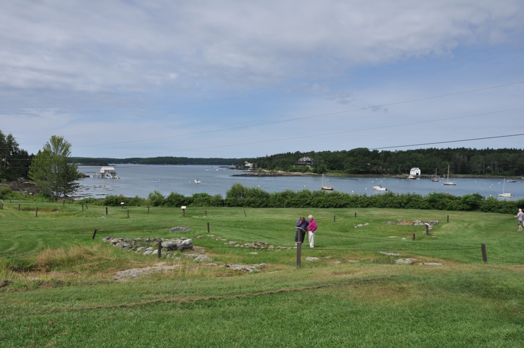 Colonial Pemaquid State Historic Site. View of the archaeological site.